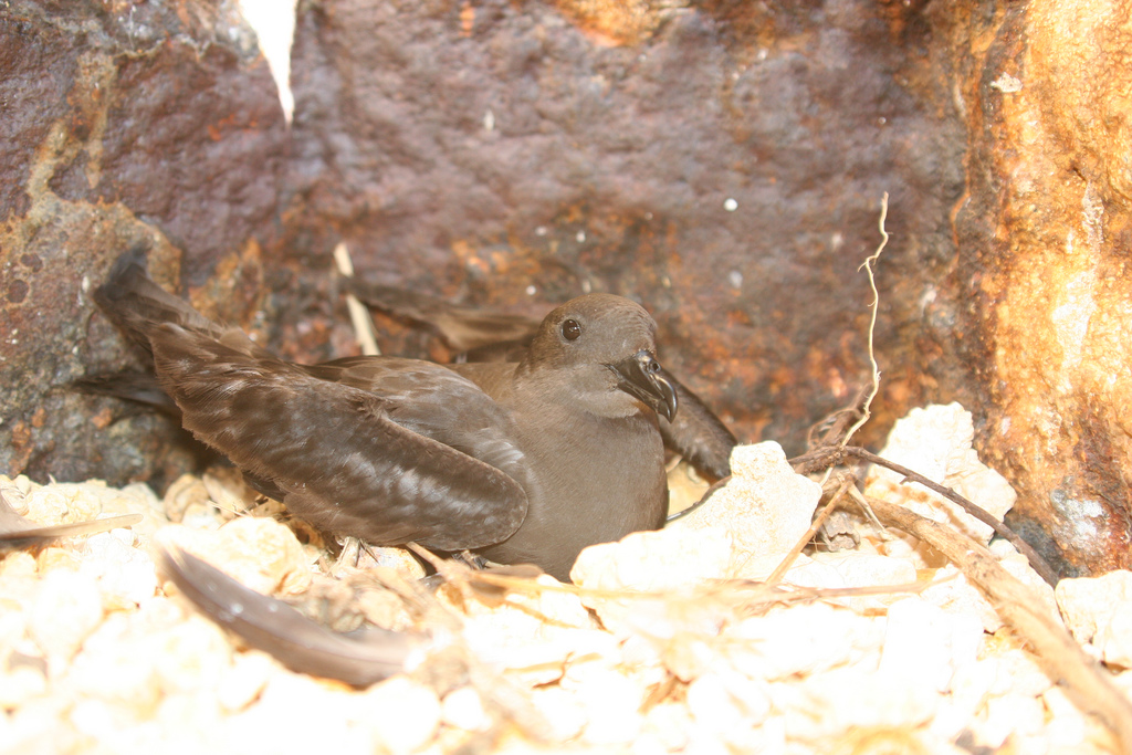 This Bulwer's Petrel (Bulweria bulwerii). This one was roosting in the sea wall (which is why everything looks orange - rust!). We never found eggs here. Tern Island, Northwestern Hawaiian Islands.